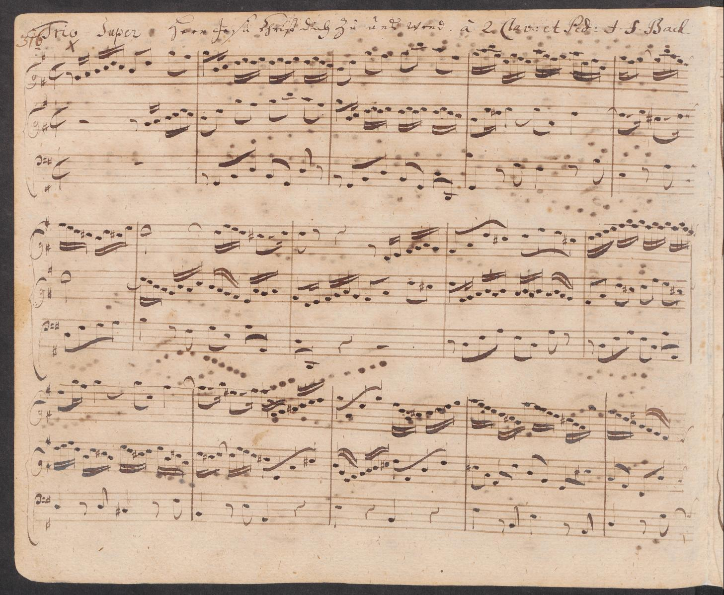 First page of manuscript of chorale prelude Herr Jesu Christ, dich zu uns wend, BWV 655a, copied by Johann Tobias Krebs